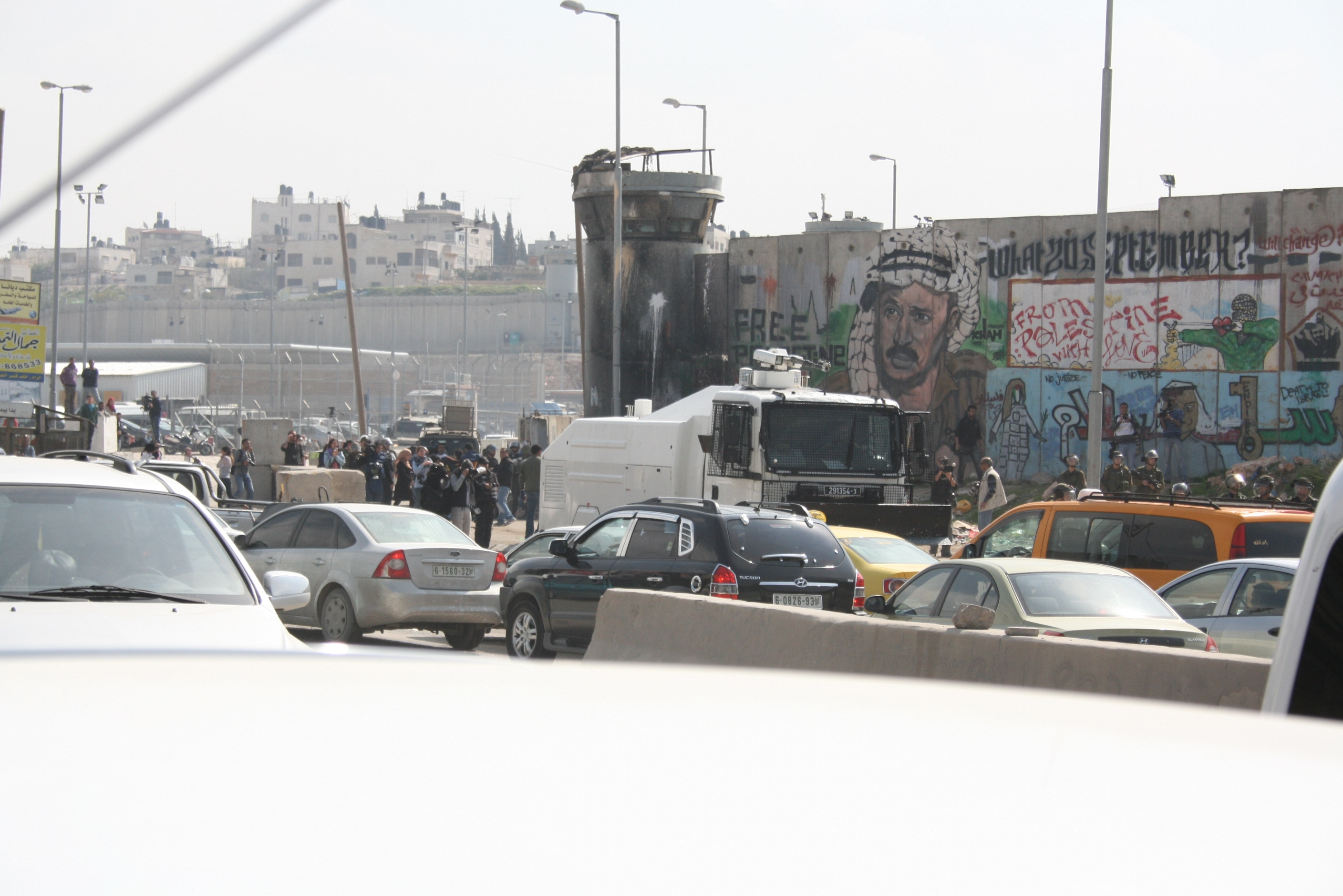 Skunk (stink weapon) used against a demonstration at Kalandia checkpoint, Palestine, 8 March 2012.